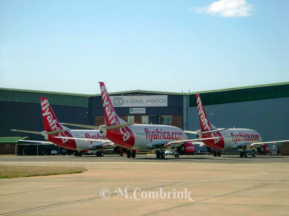 Airline grounded.